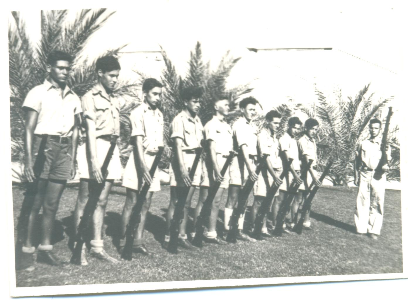 Israel Defense Forces